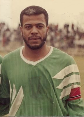 Iraqi player, Younis Abid Ali, playing for Al Shorta SC in 1994.